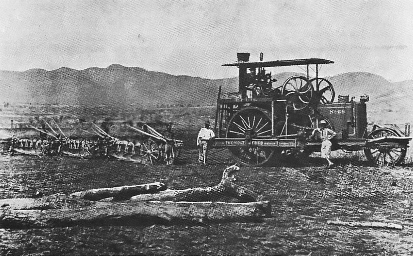 A steam tractor on the Premier Citrus Estate, near Umtali in eastern Southern Rhodesia, ca. 1910s.